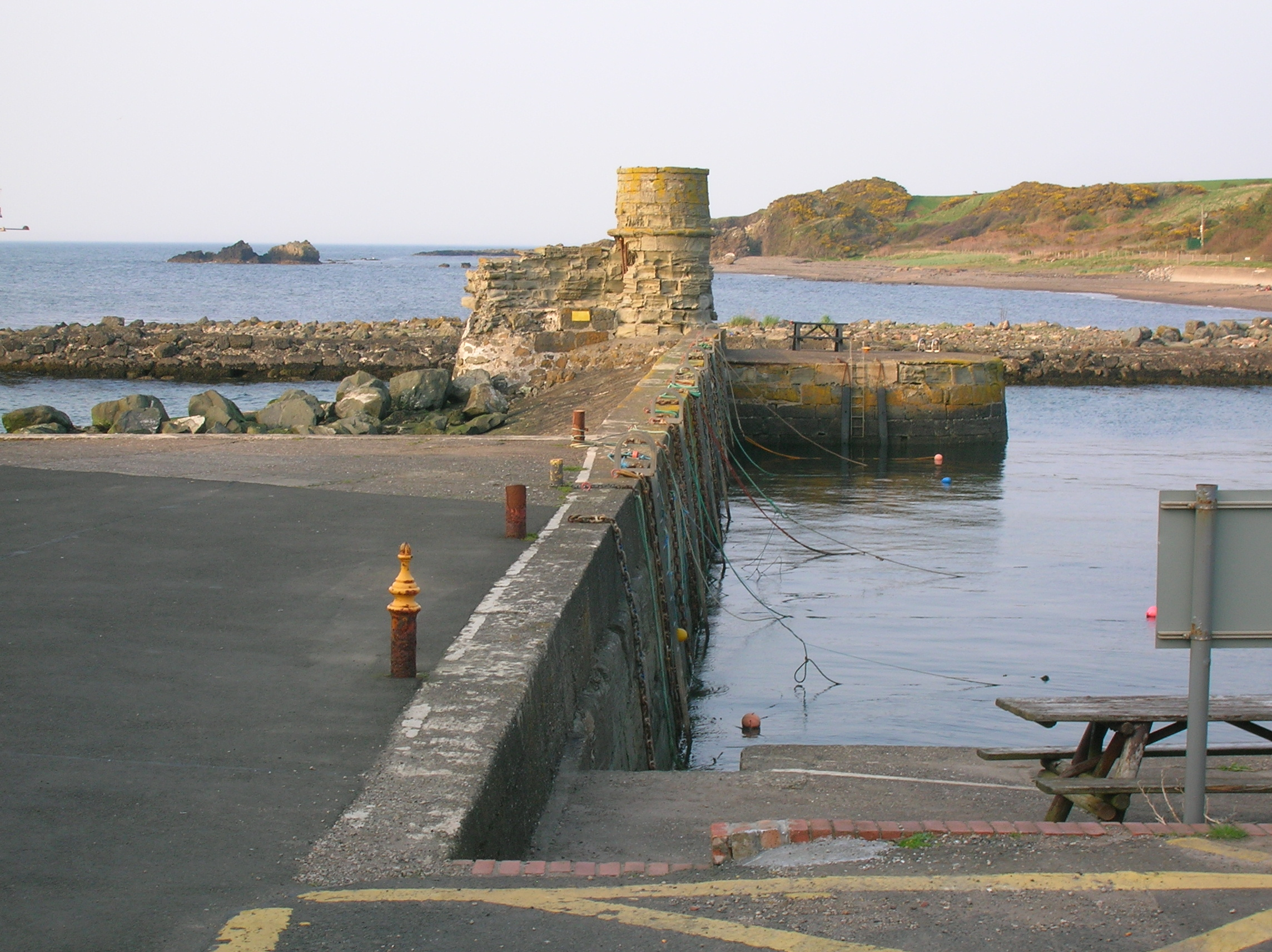 Dunure harbour wall and old lookout. South Ayrshire, Scotland.